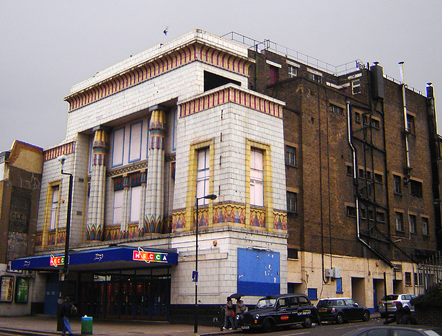 Mecca Bingo Hall (former Carlton Cinema), Essex Road, Islington, London 5 November 2005. Photographer: Fin Fahey.